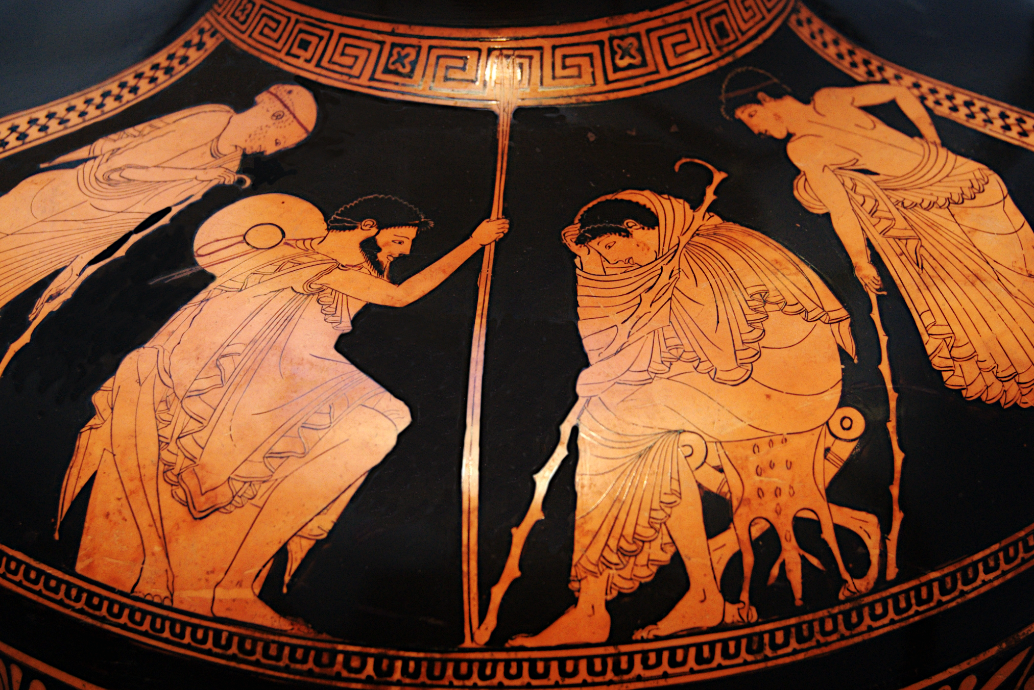 The embassy to Achilles (book 9 of the Iliad): Phoenix and Odysseus in front of Achilles Patroklos behind Achilles. Attic red-figure hydria. The original image was photographed and uploaded by User:Bibi Saint-Pol, own work, 2007-02-13 This version of the image has been slightly cropped, white balanced and the glare has been digitally reduced